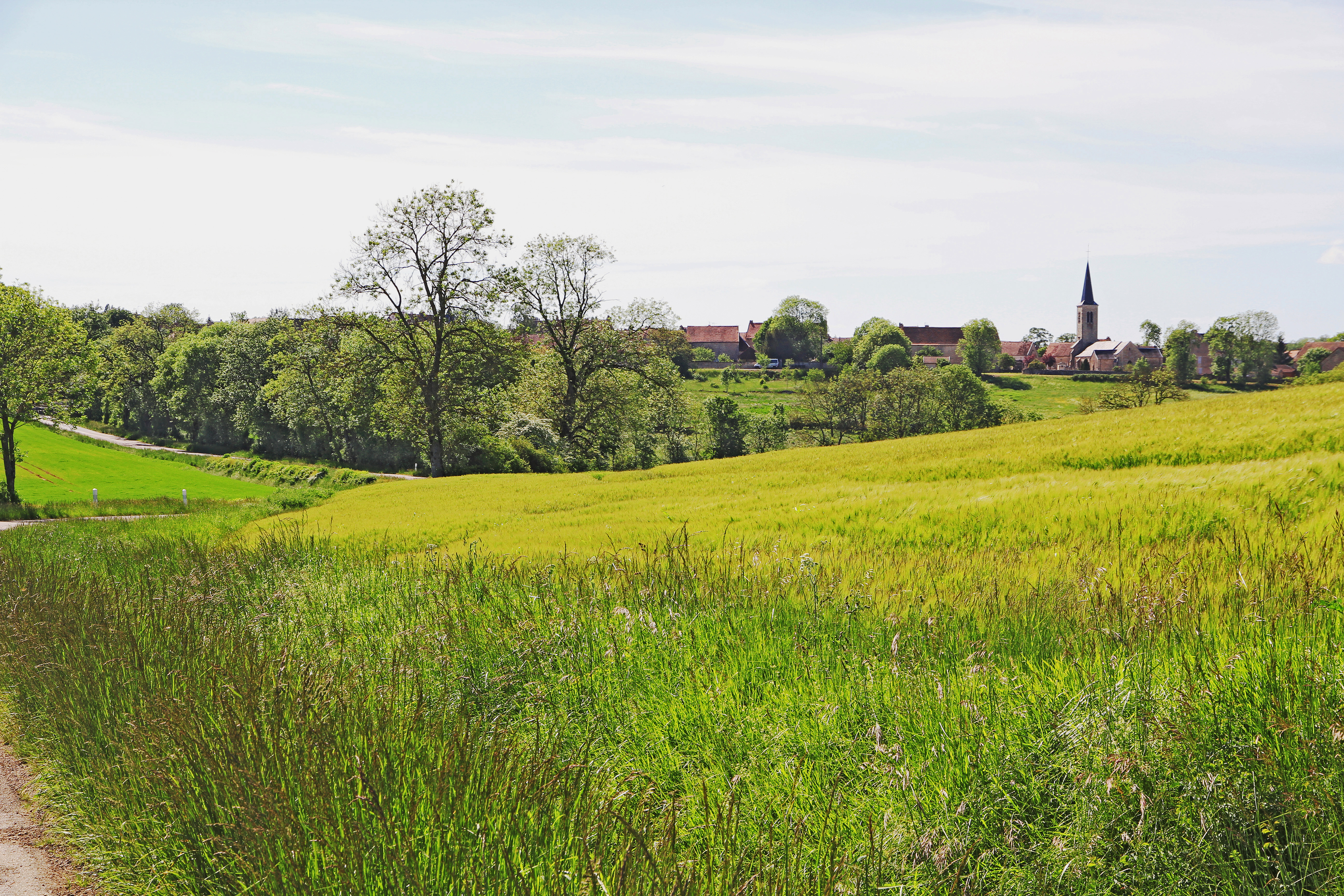 Sight on the village Baigneux-les-Juifs since the East